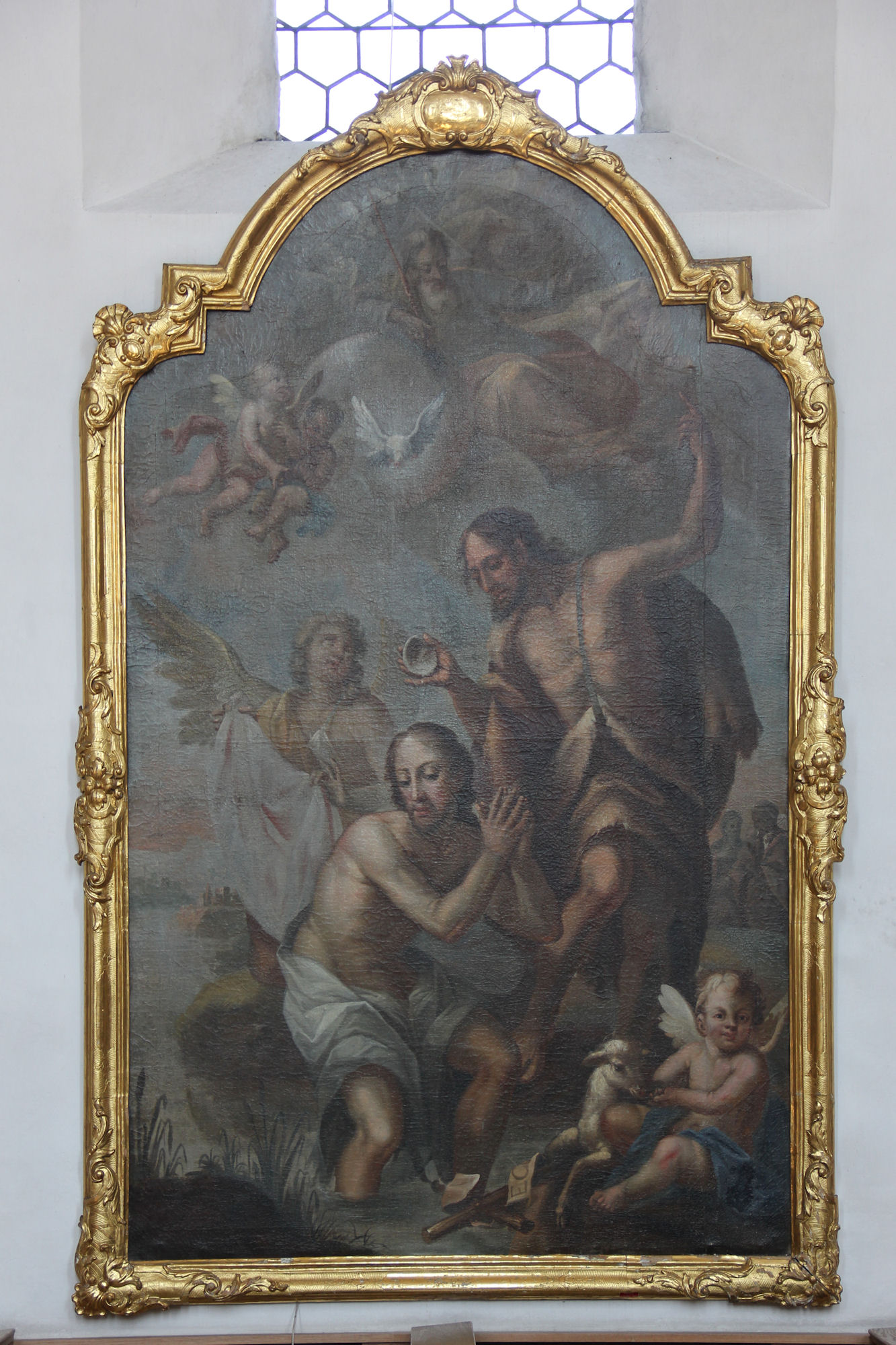 Church of St. John the Baptist Native nameSt. Johannes BaptistLocationZolling, Upper Bavaria, GermanyCoordinates48° 26′ 59.28″ N, 11° 46′ 15.24″ E Authority control : Q2319336 institution QS:P195,Q2319336